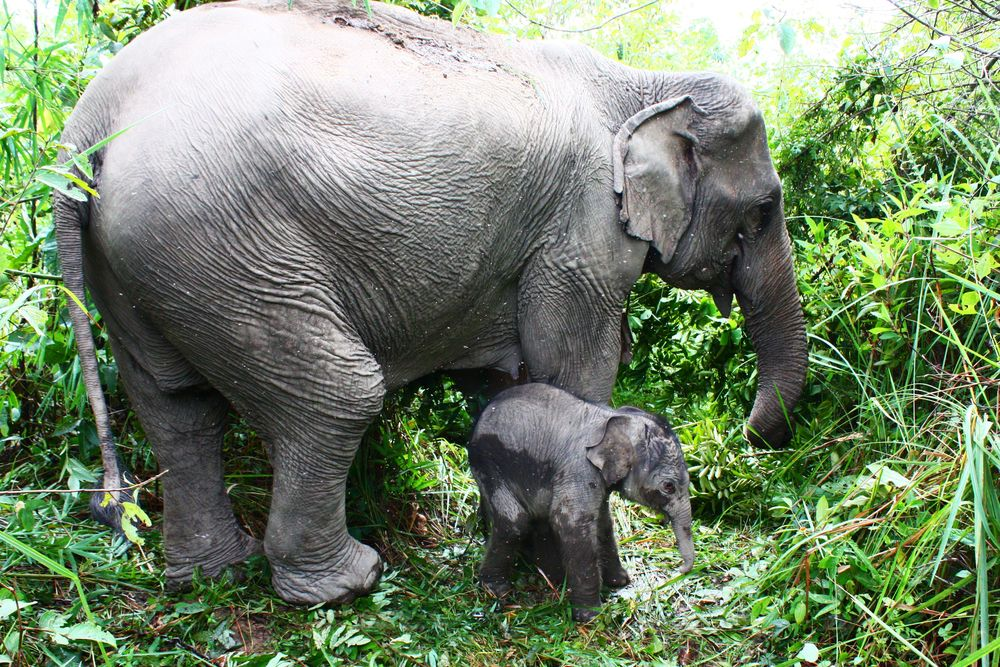 One day old baby domestic asian elephant born in october 2011 in Hongsa District (Laos). Few weeks later, he was brought with his mother to the Lao Elephant Conservation Center, in Sayaboury Province, Laos for regular care and follow-up. Photo Fabien BASTIDE